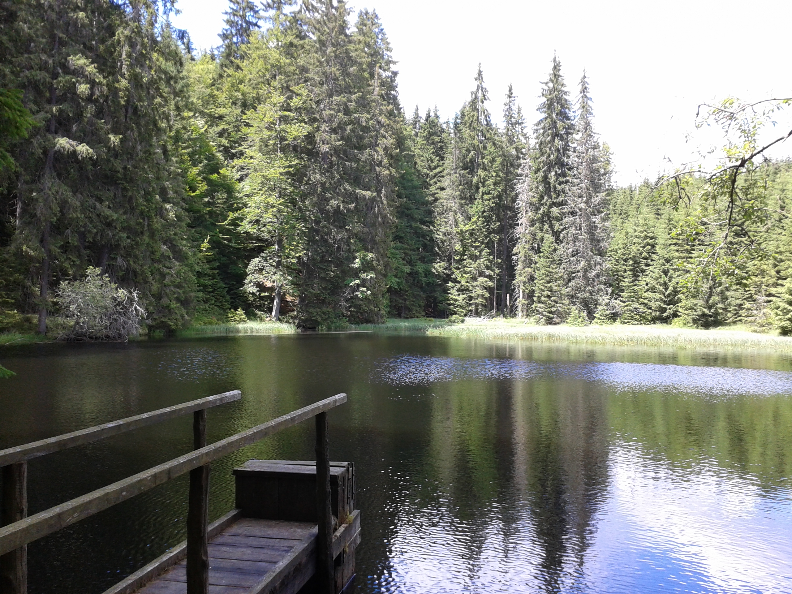 Water reservoir (Splash dam) "U Tokaniště" (German: Schwelle) near the former village Knížecí Pláně (German: Fürstenhut) in Šumava, Czech republic.